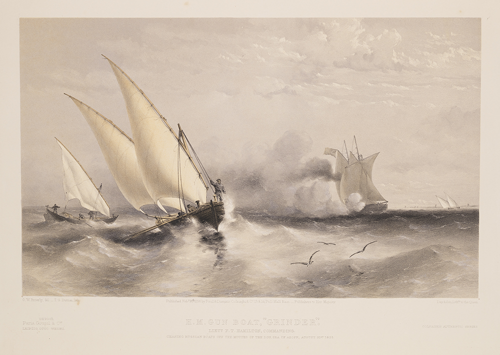 Title: H.M. Gun Boat, 'Grinder.' Creator: Brierly, Oswald Walters, Sir, 1817-1894 (delineator); Dutton, T. G. (Thomas Goldsworth), 1819-1891 (lithographer) Date: February 20, 1856 Part of: beautiful scenery and chief places of interest throughout the Crimea from paintings/ Series: Marine & Coast Sketches of the Black Sea/ Place: Don River; Sea of Azov Physical Description: 1 print: lithograph, color, part of 1 volume (65 prints); 26 x 39 cm on 40 x 56 cm File: folio_3_ne2524_b6_38_opt.jpg Rights: Please cite DeGolyer Library, Southern Methodist University when using this file. A high-resolution version of this file may be obtained for a fee. For details see the web page. For other information, . For more information and to view the image in high resolution, View the